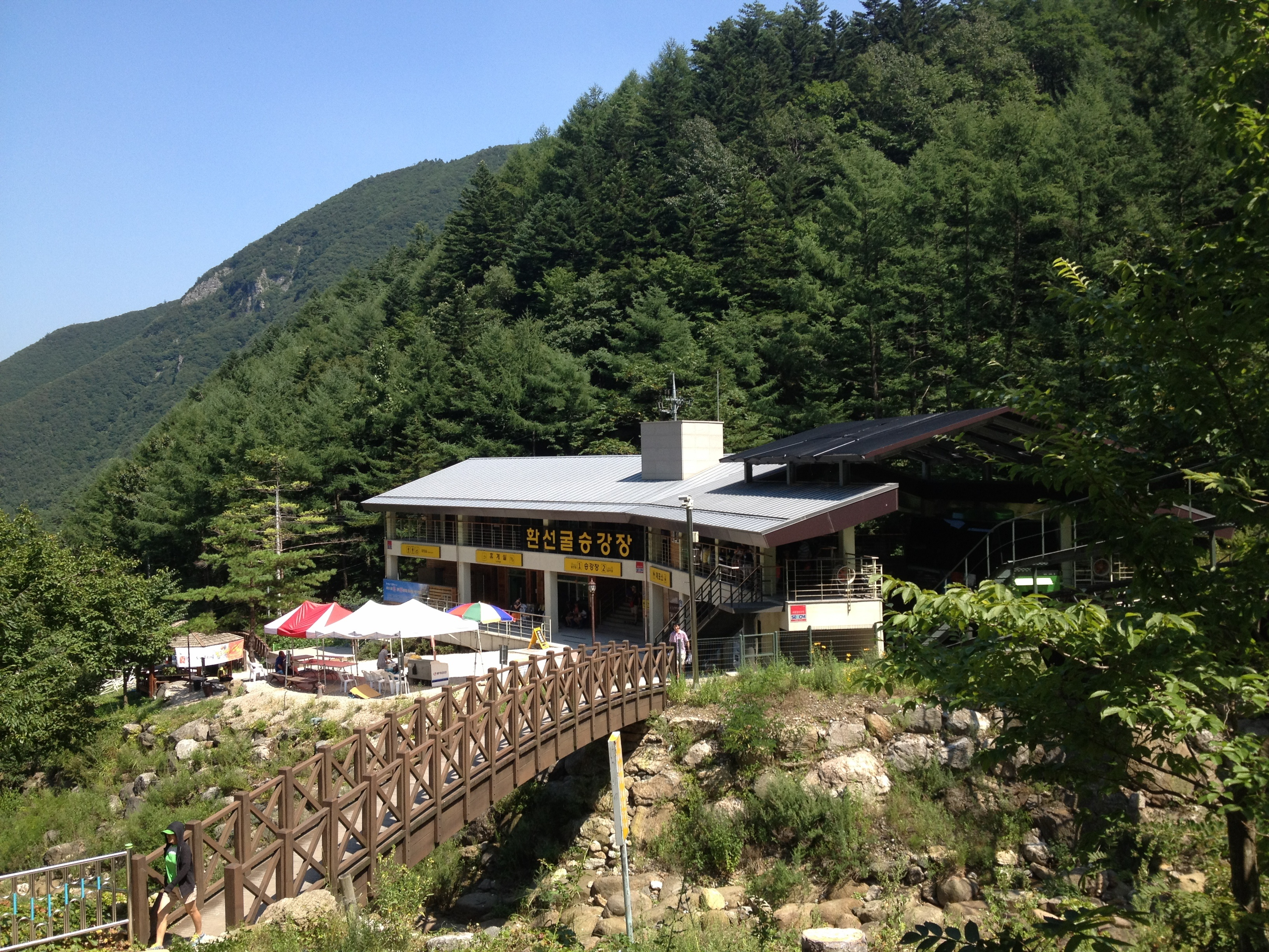 Hwanseongul monorail